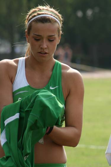 Director Silvia Salis training in Genoa in 2009